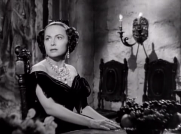 Trailer screenshot of My Cousin Rachel (1952)